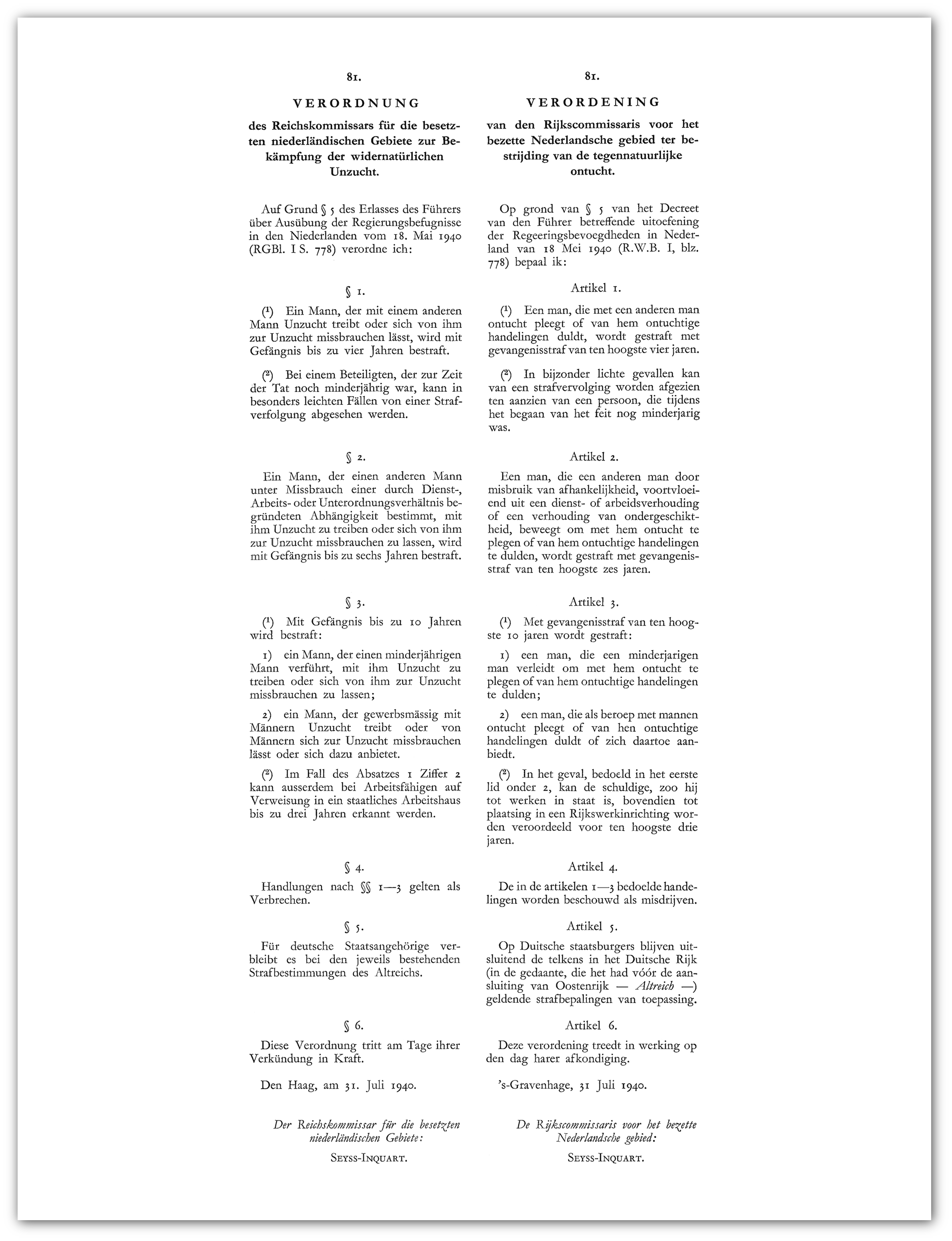 "Regulation to combat unnatural fornication" (Vo 81/40) Nazi German anti-gay legislation in the Netherlands during World War-II.